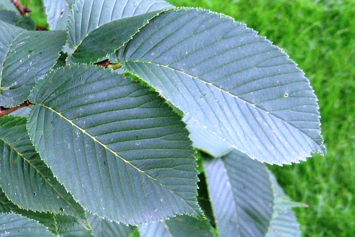 Photo by Ronnie Nijboer